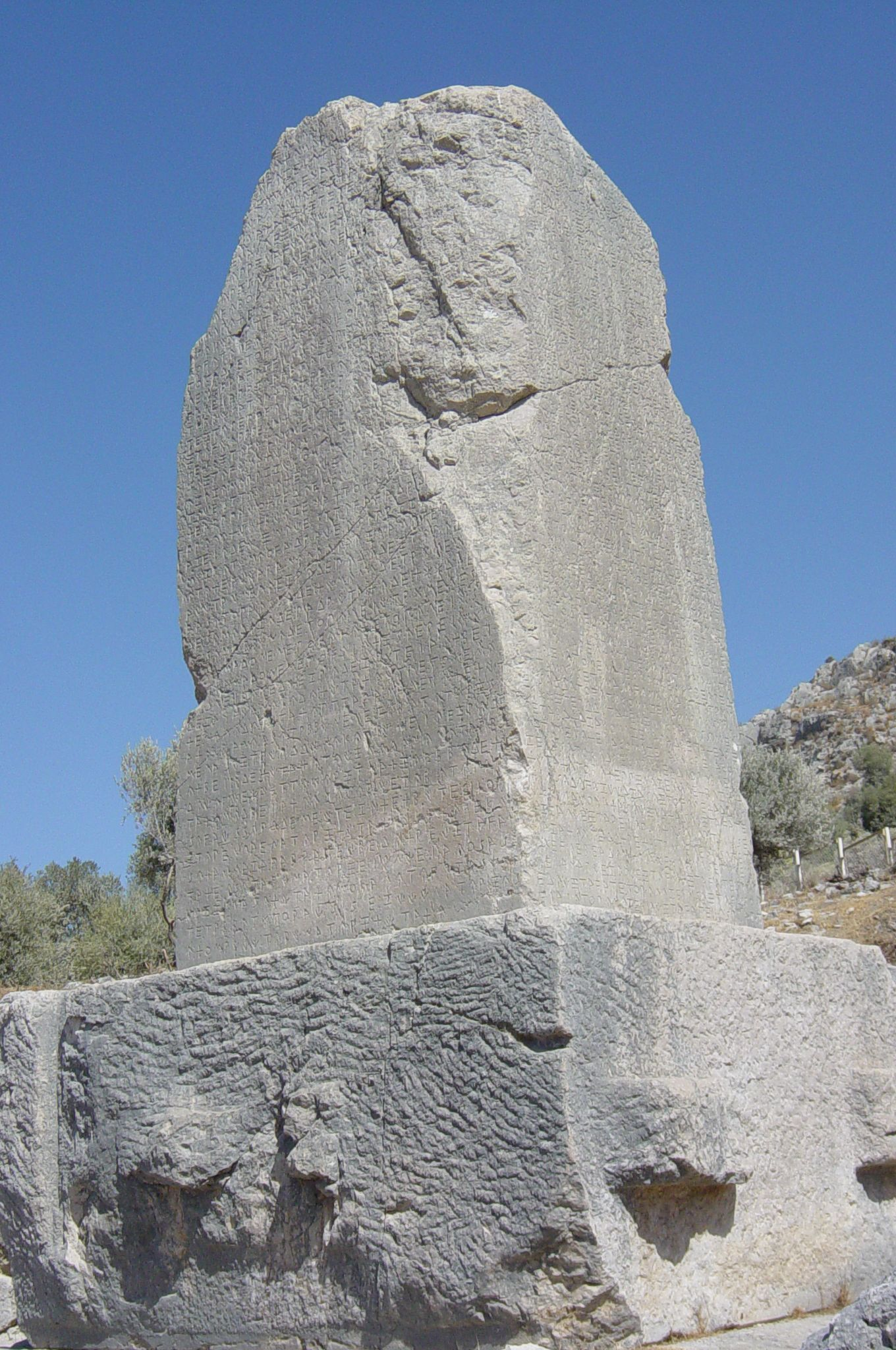 Part of the Lycian inscription at Xanthos, Turkey. This is a heritage site and one of the best-preserved Lycian cities.